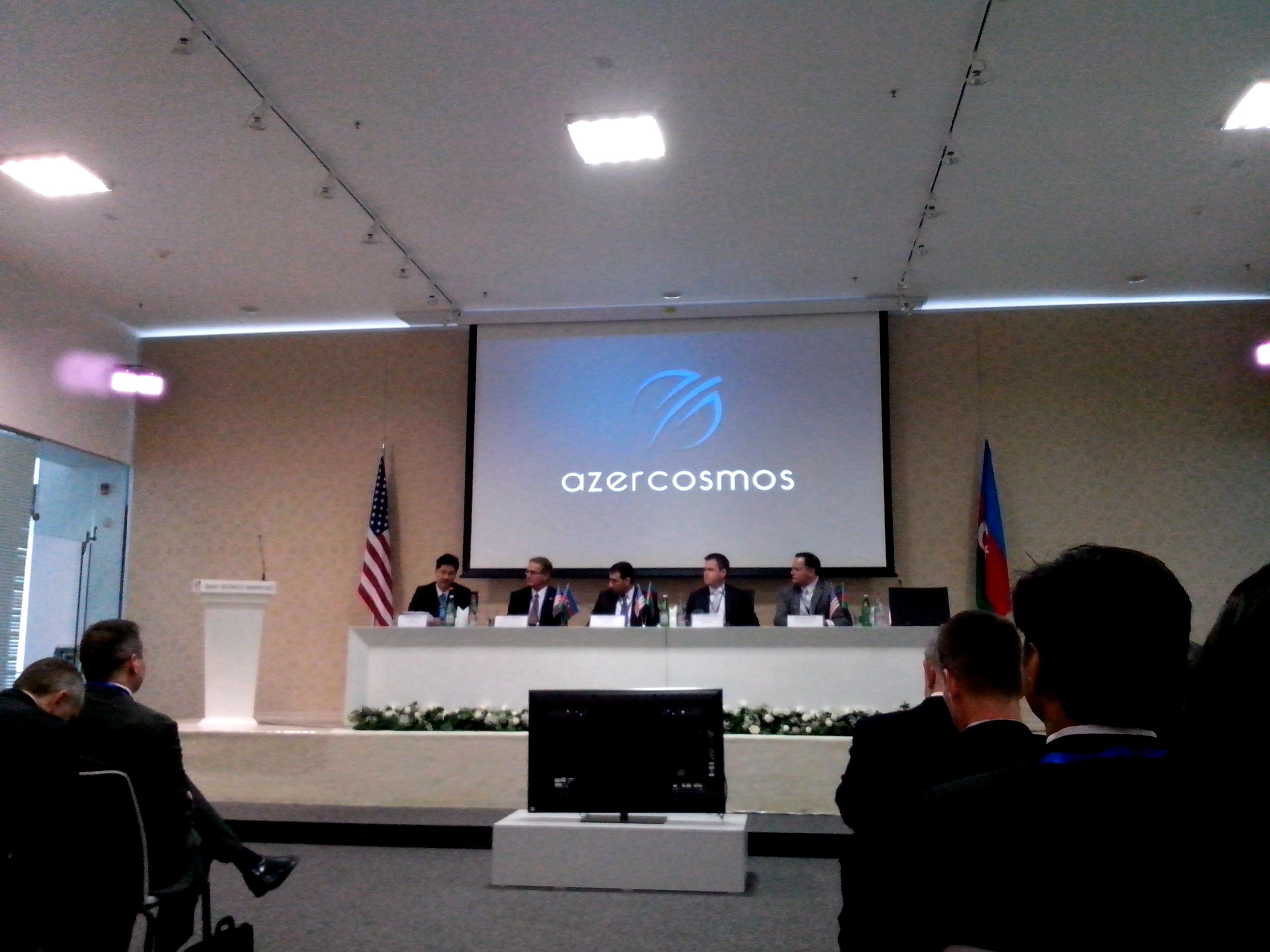 Azerbaijan-U.S. ICT Forum